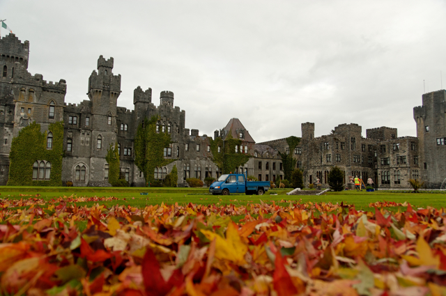 Ashford Castle with autumn leaves in the foreground